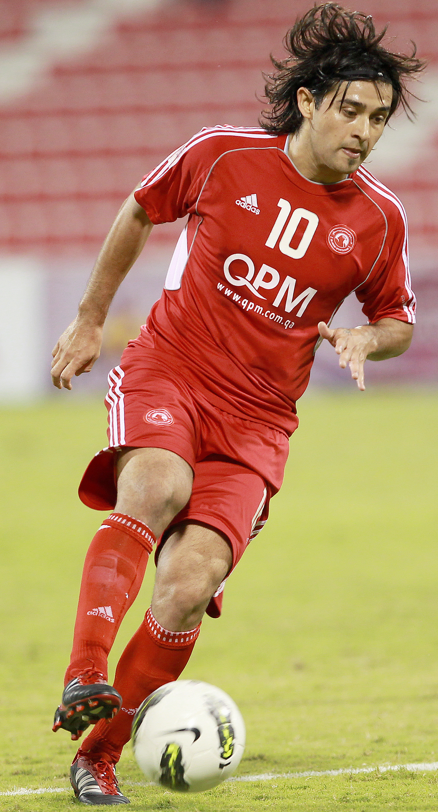 Al Arabi's Argentinian professional Leonardo Pisculichi runs with the ball during a Qatar Stars League match. Pic by AK Bijuraj